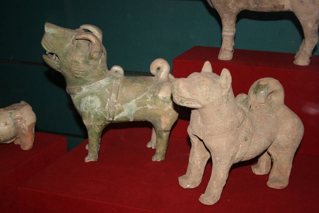 Pottery figurines of dogs from the Chinese Han Dynasty